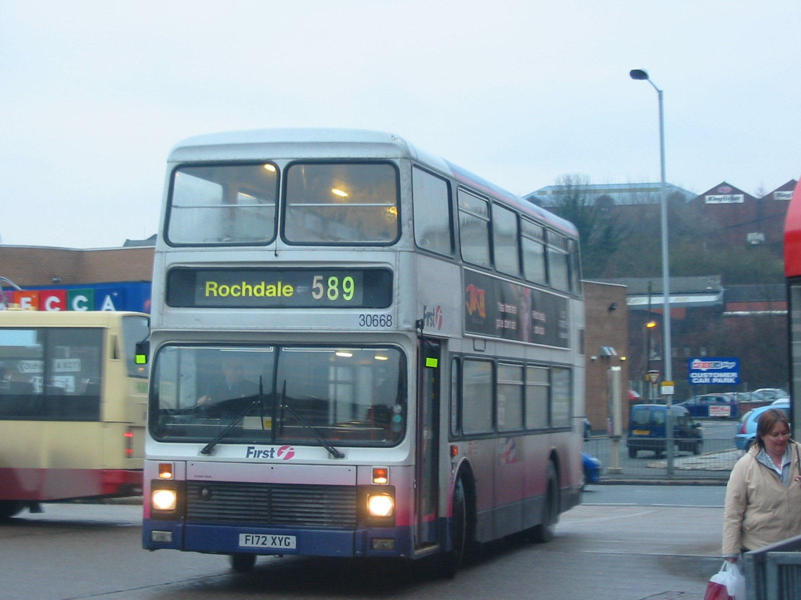 First West Yorkshire 30668 F172XYG Leyland Olympian / Northern Counties in Rochdale Bus Station